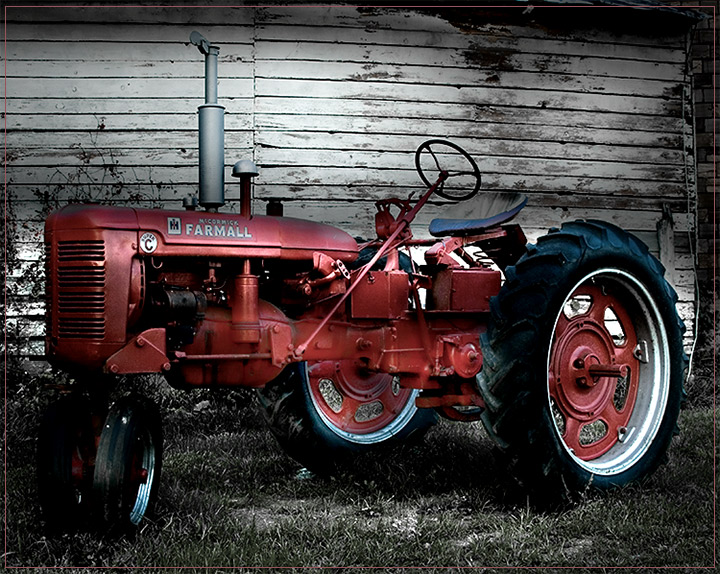 This is a pretty good example of a well-restored Farmall Super C